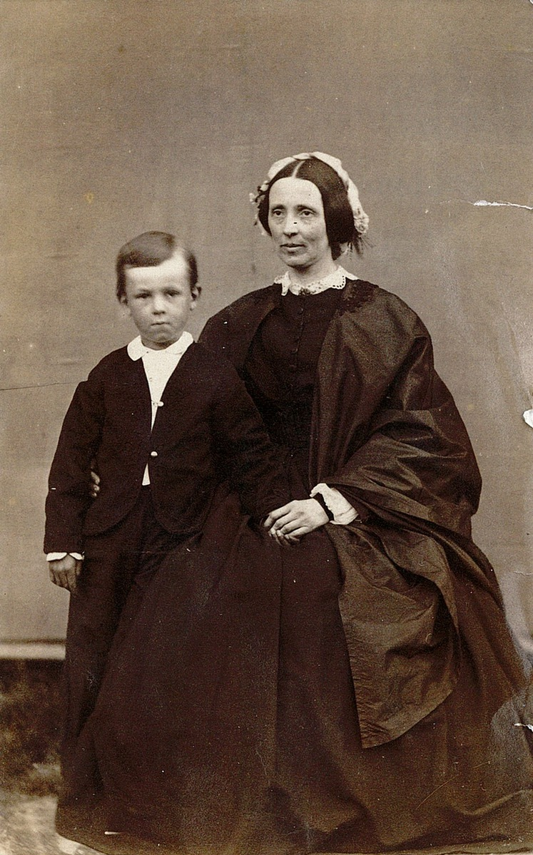 Norwegian priest Birger Anneus Hall (1858–1927) and his mother Paulina Irgens Holmboe Stoltenberg. Photo about 1863–65.